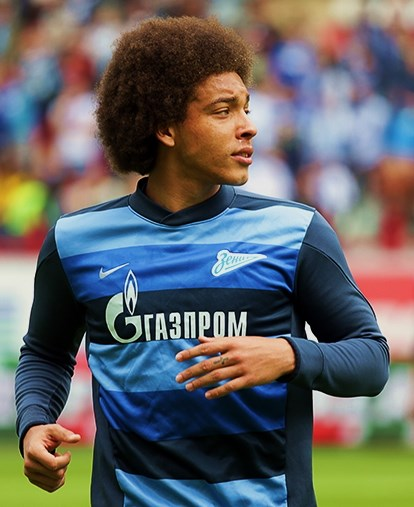 Axel Witsel 2014